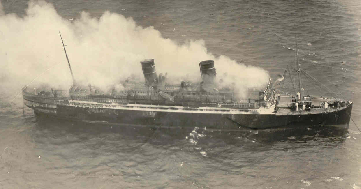 The TEL Morro Castle, burning off the coast of New Jersey in 1934.